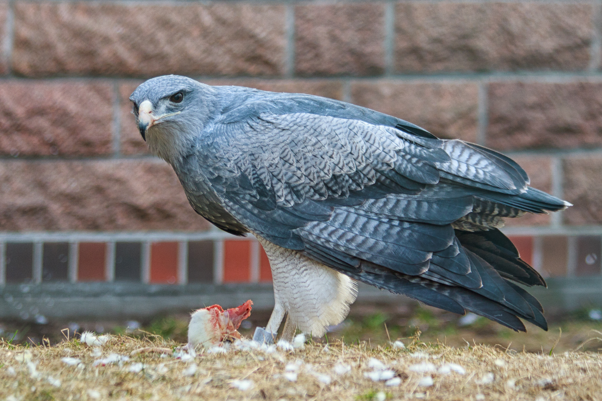 Black-chested Eagle-buzzard (Geranoaetus melanoleucus, Vieillot), Tierpark Berlin